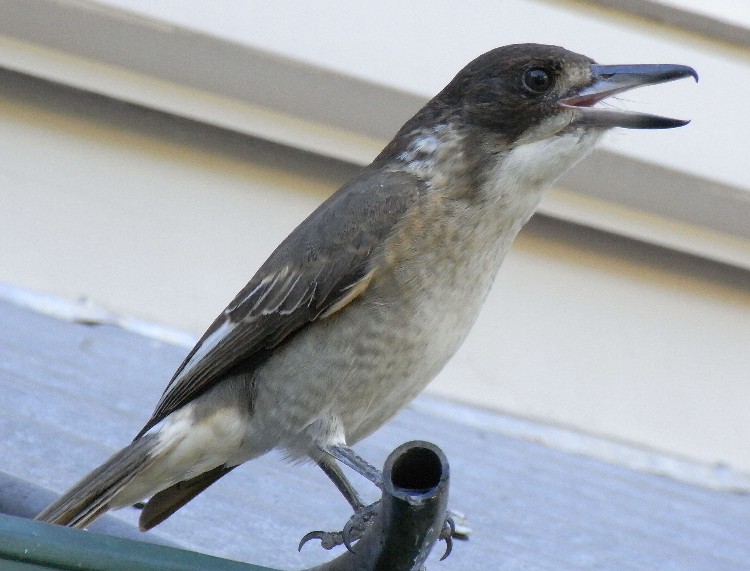 Young Grey Butcherbird (Cracticus torquatus) sitting on a roof in Canungra, Queensland, Australia.